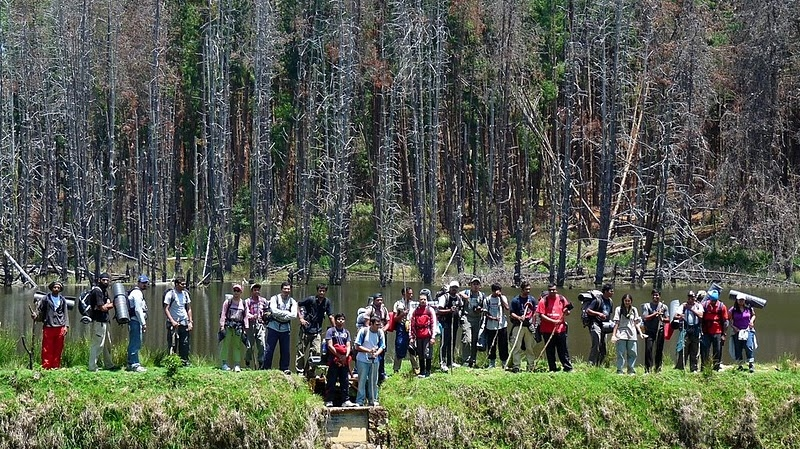 24 CTC trekkers departing Berijam camp enroute from Kodaikanal, Tamil Nadu to Munnar, Kerala, May 2, 2009